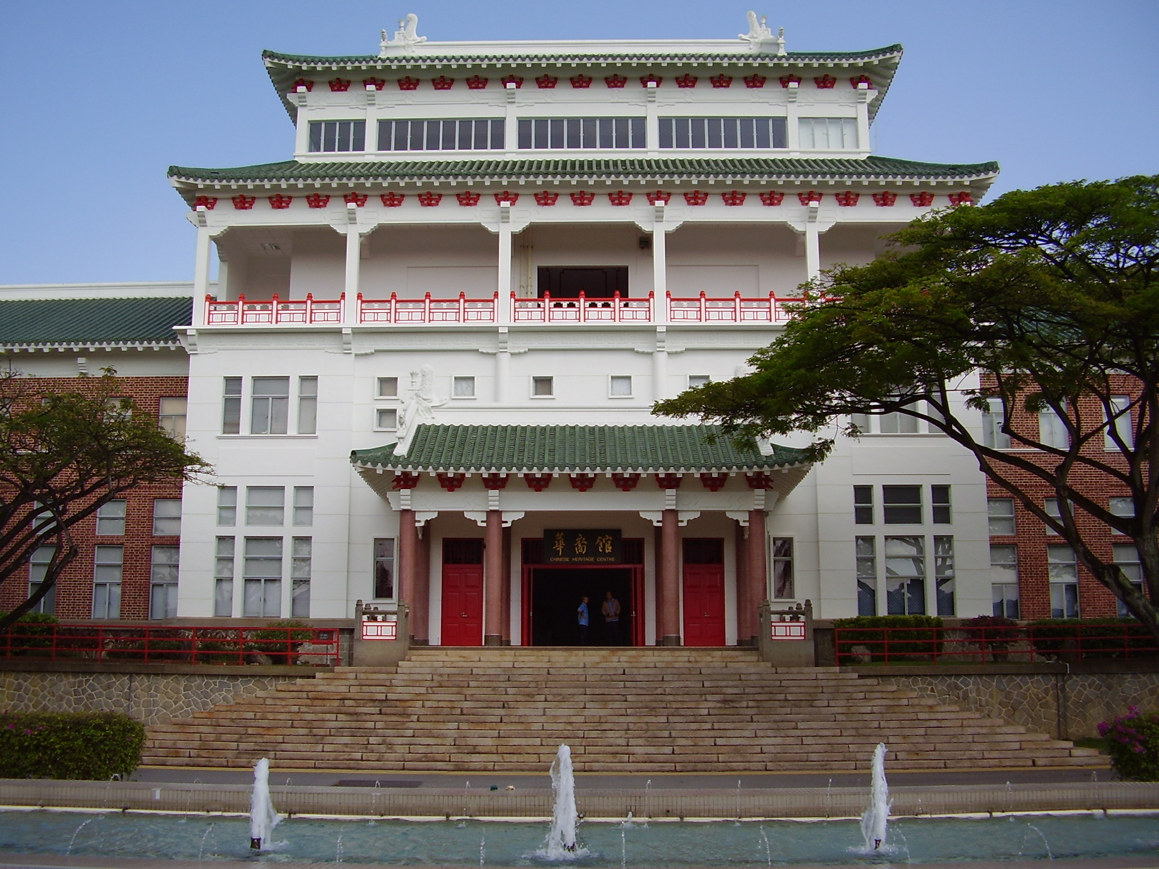 Front view of Nanyang Technological University former administrative building.